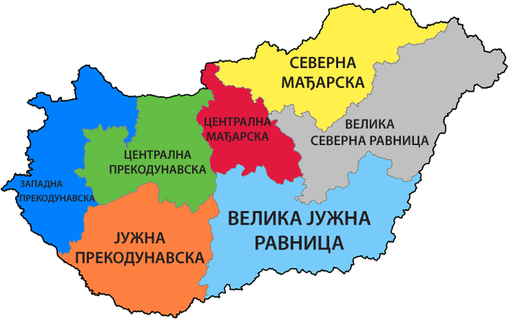 Regions of Hungary